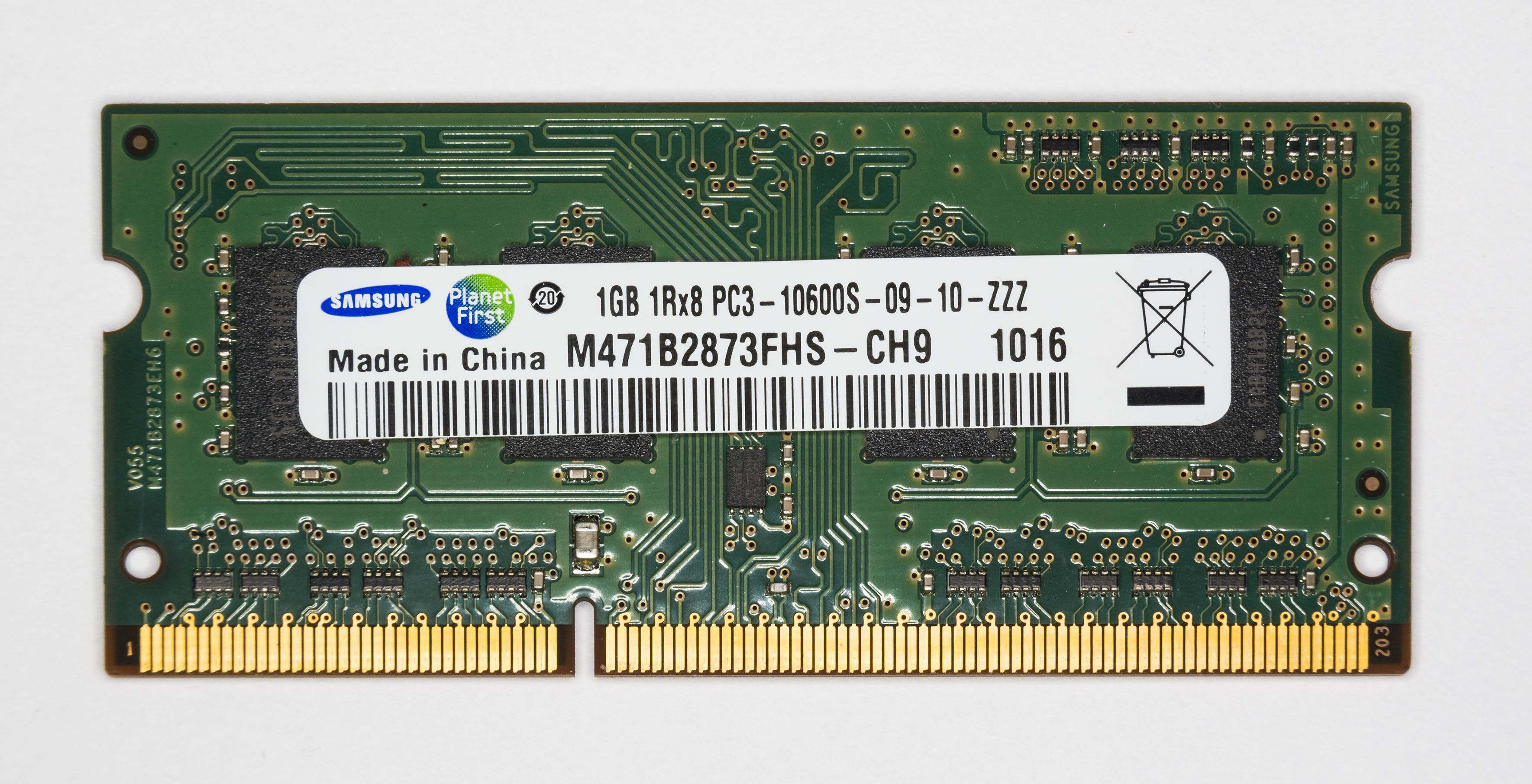 Memory module DDR3 SO-DIMM 1GB Samsung